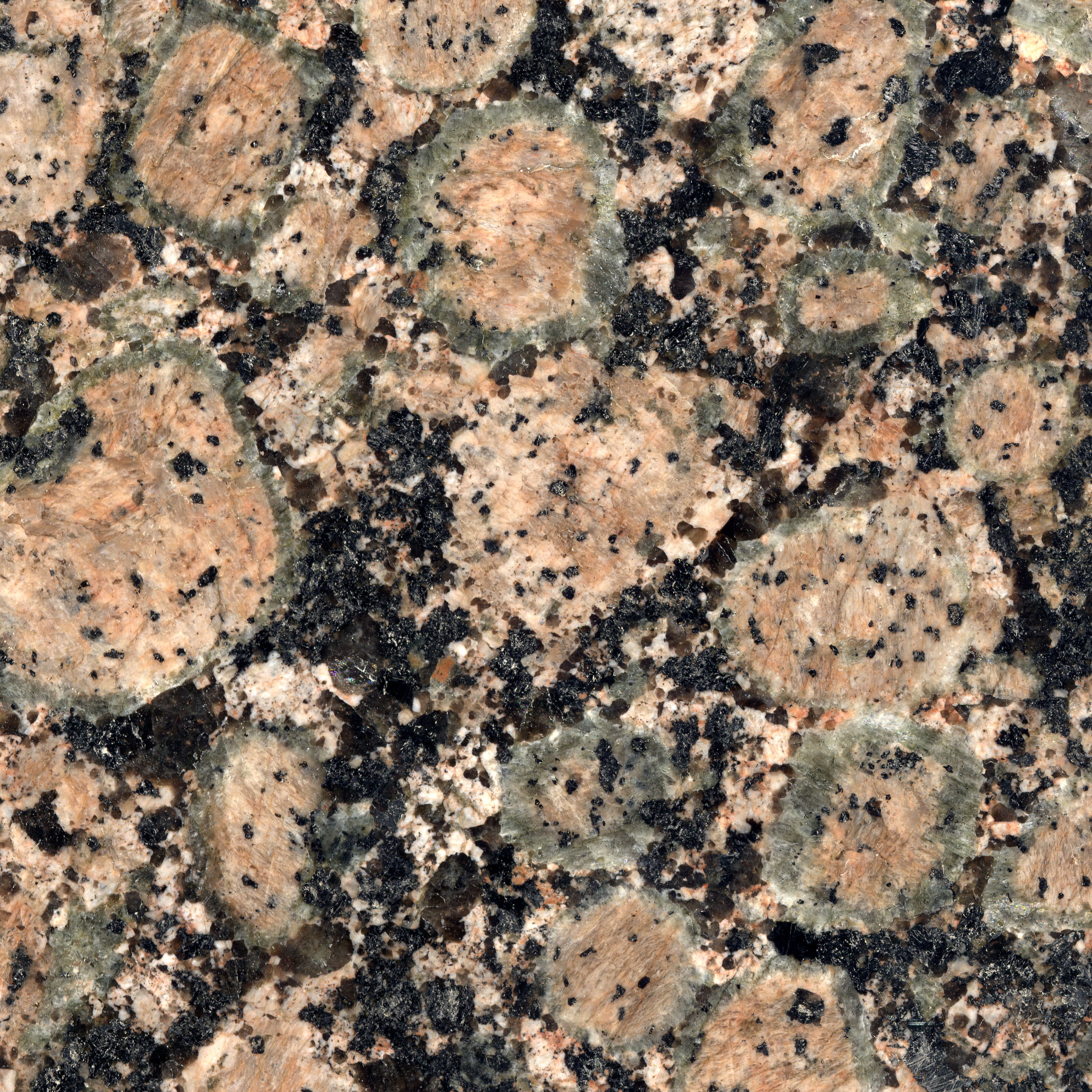 Rapakivi granite from Finland (polished surface).